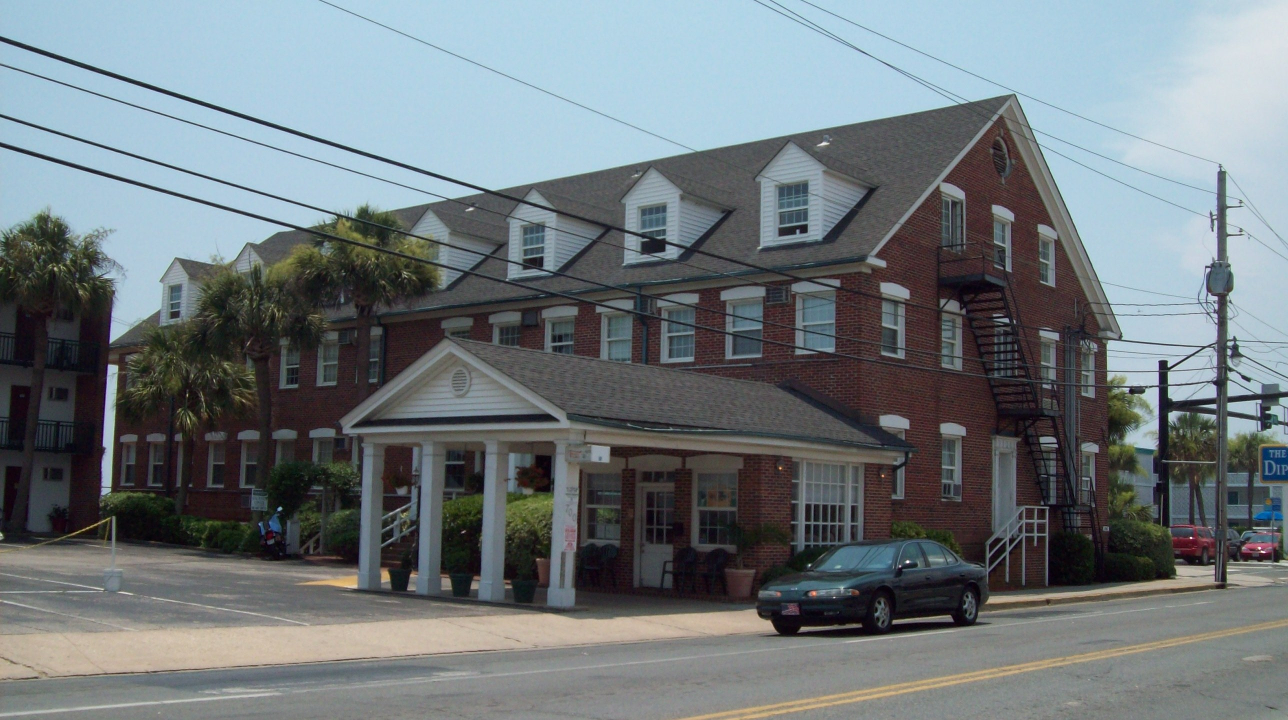 Chesterfield Inn, Myrtle Beach SC, Streetside View, June 2010